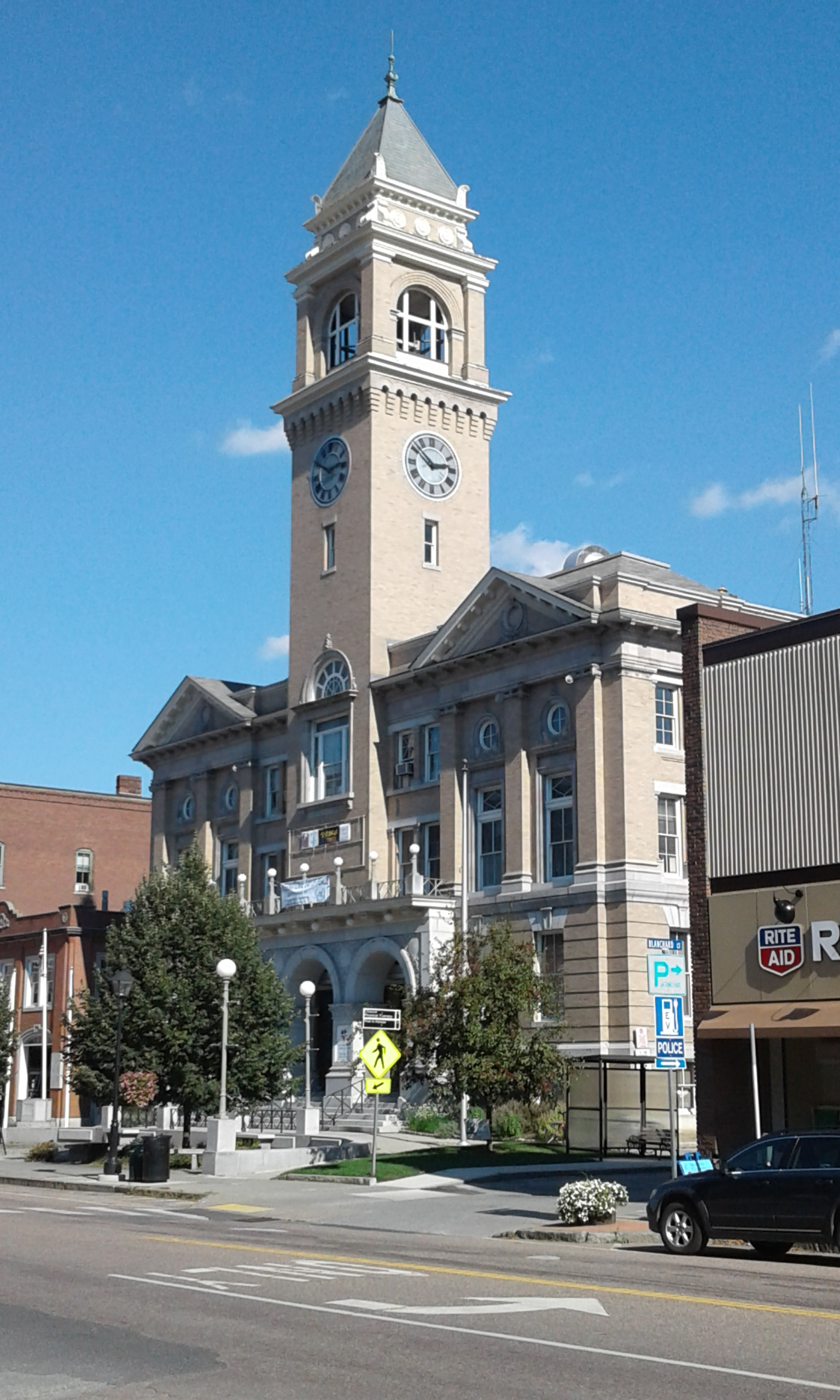 City Hall Auditorium Arts Center on Main Street in downtown Montpelier, Vermont which houses Lost Nation Theater, etc.